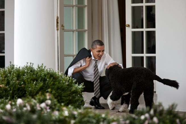 President Barack Obama pets Bo, the Obama family dog, after returning to the White House from an event at Prince George's Community College in Largo, Md., March 15, 2012. (Official White House Photo by Lawrence Jackson)